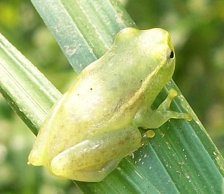 Waterlily Reed Frog (Hyperolius pusillus) from Ilanda Wilds, Amanzimtoti, South Africa.